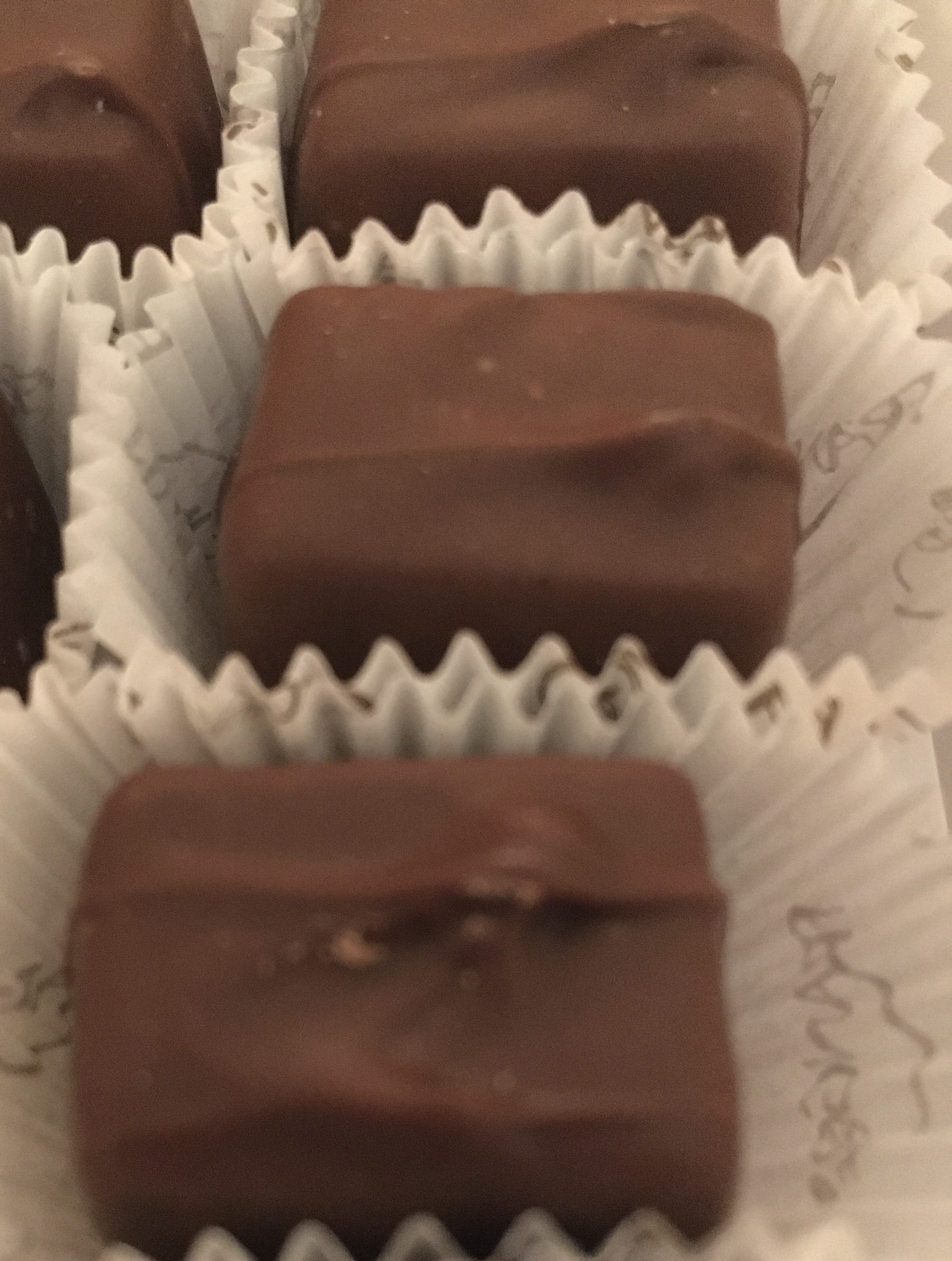 A closeup of individually-wrapped Frango mints